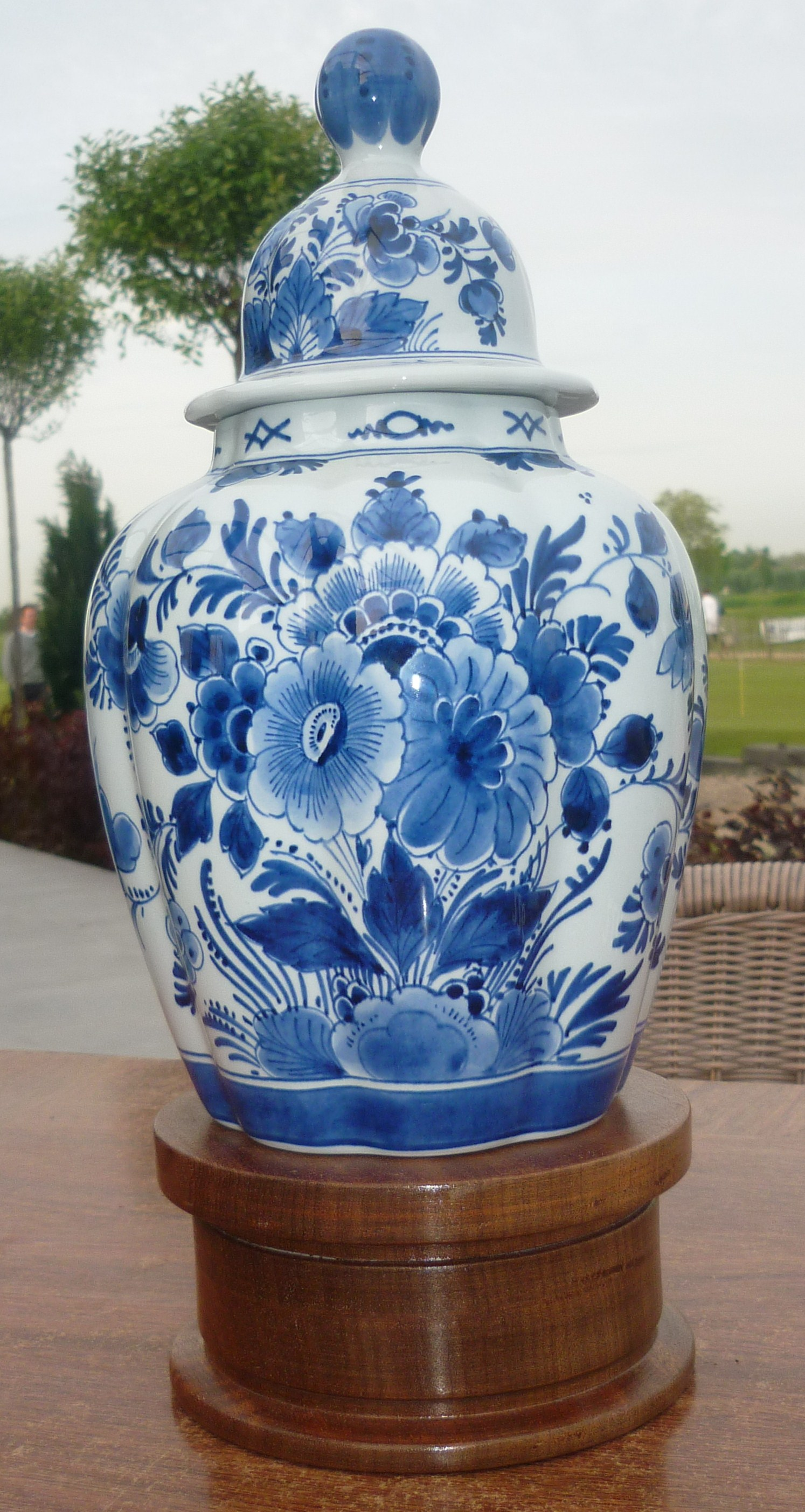 Trophy of the Delfland Invitational (ladies)